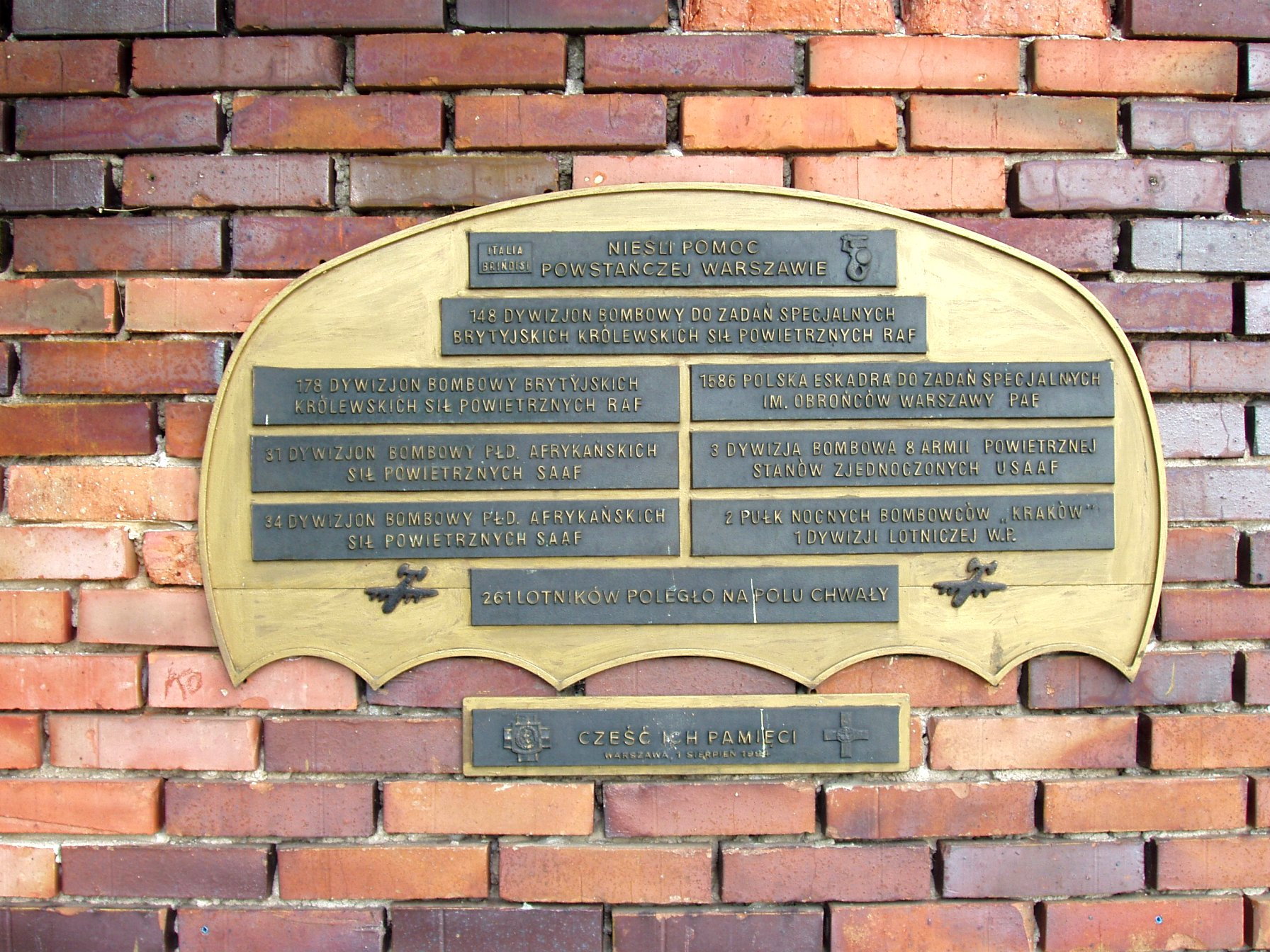 Monument to the Allied airmen who fell during the Warsaw Uprising.